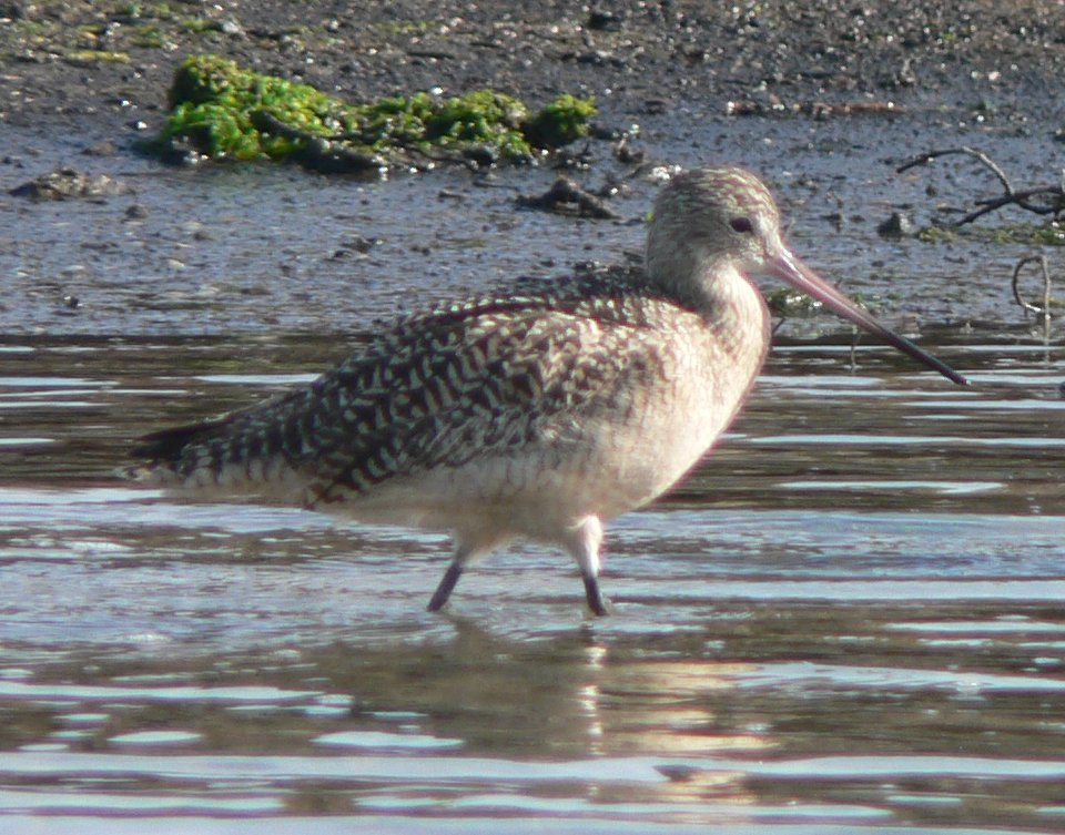 Limosa fedoa, Elkhorn Slough, Monterey Bay, California, USA Cropped from Image:Limosa fedoa P1260801.jpg